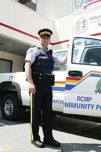 RCMP officer and truck